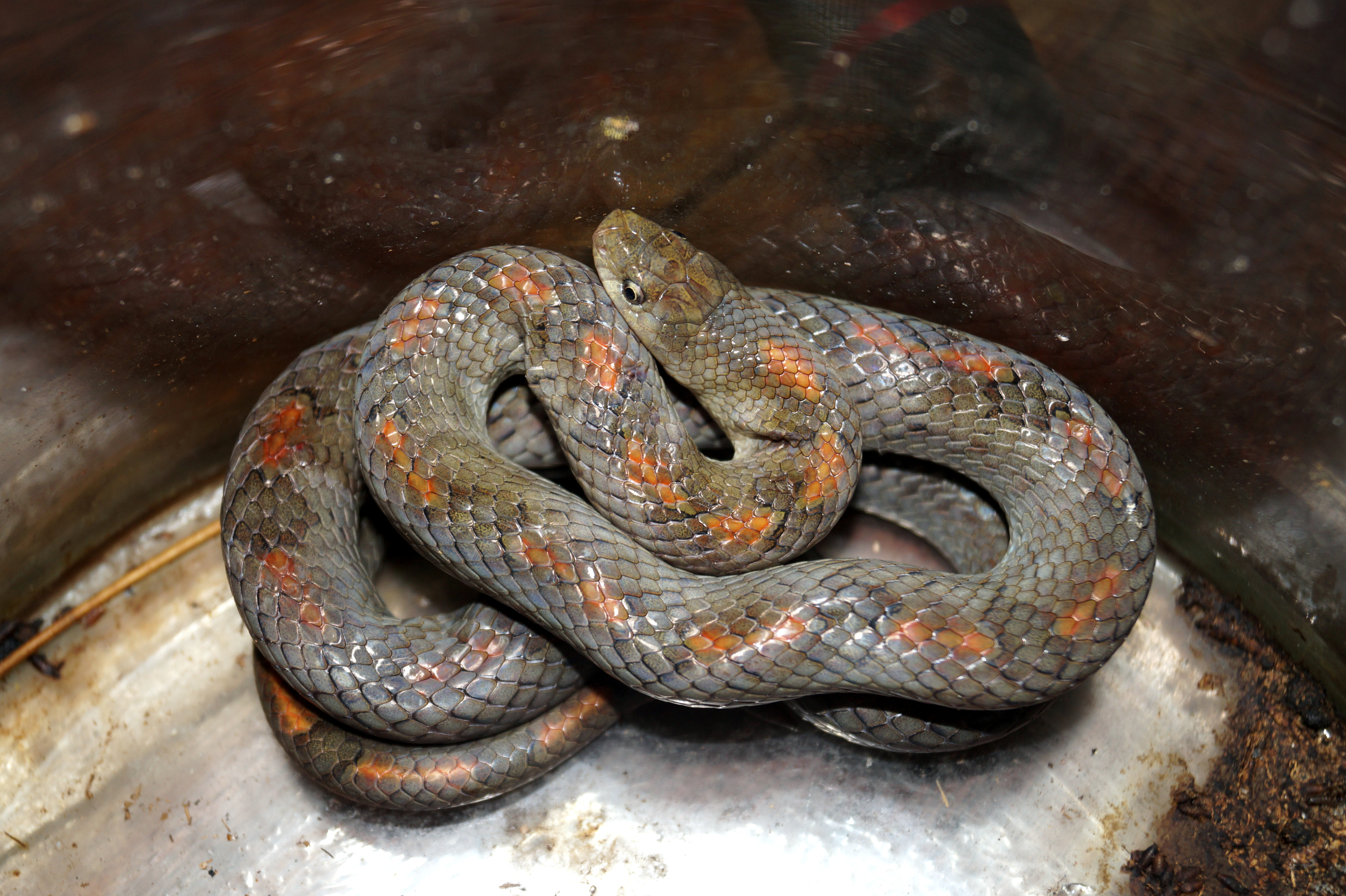 Oligodon cattienensis in Cat Tien National Park by Piyush Chauhan